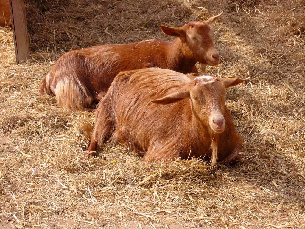 Golden Guernsey goats at a city farm in London.